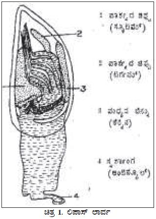 barnacles